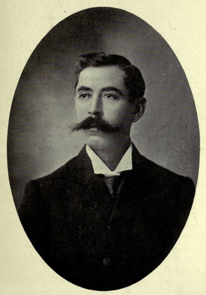 H. E. Dr. Manuel Enrique Araujo; President of the Republic of Salvador 1911-1913.